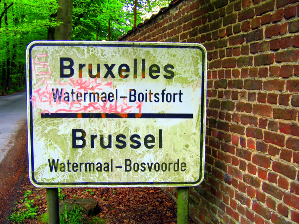 street sign in Brussels, in Dutch (lower half) and French (upper half)